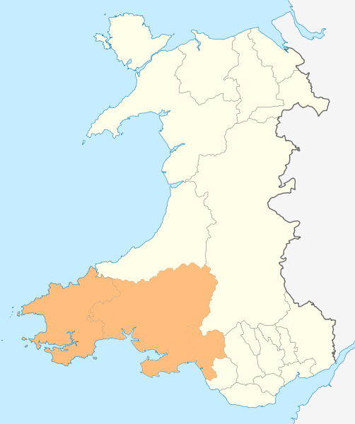 Locator map of Swansea Bay City Region in Wales